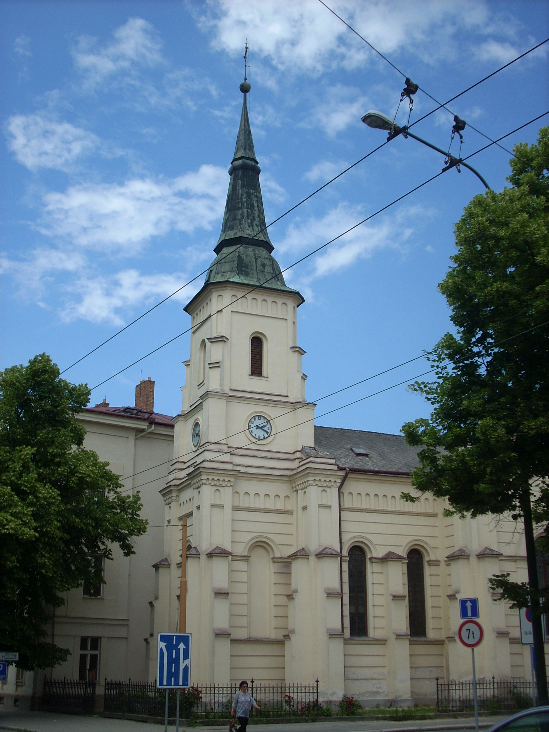 Church of apostle Paul, Jihlava